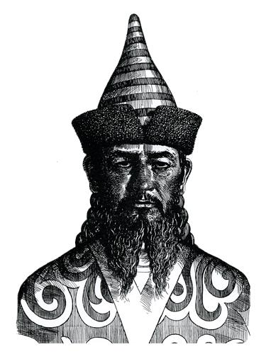 Ladislaus IV of Hungary (the cuman)